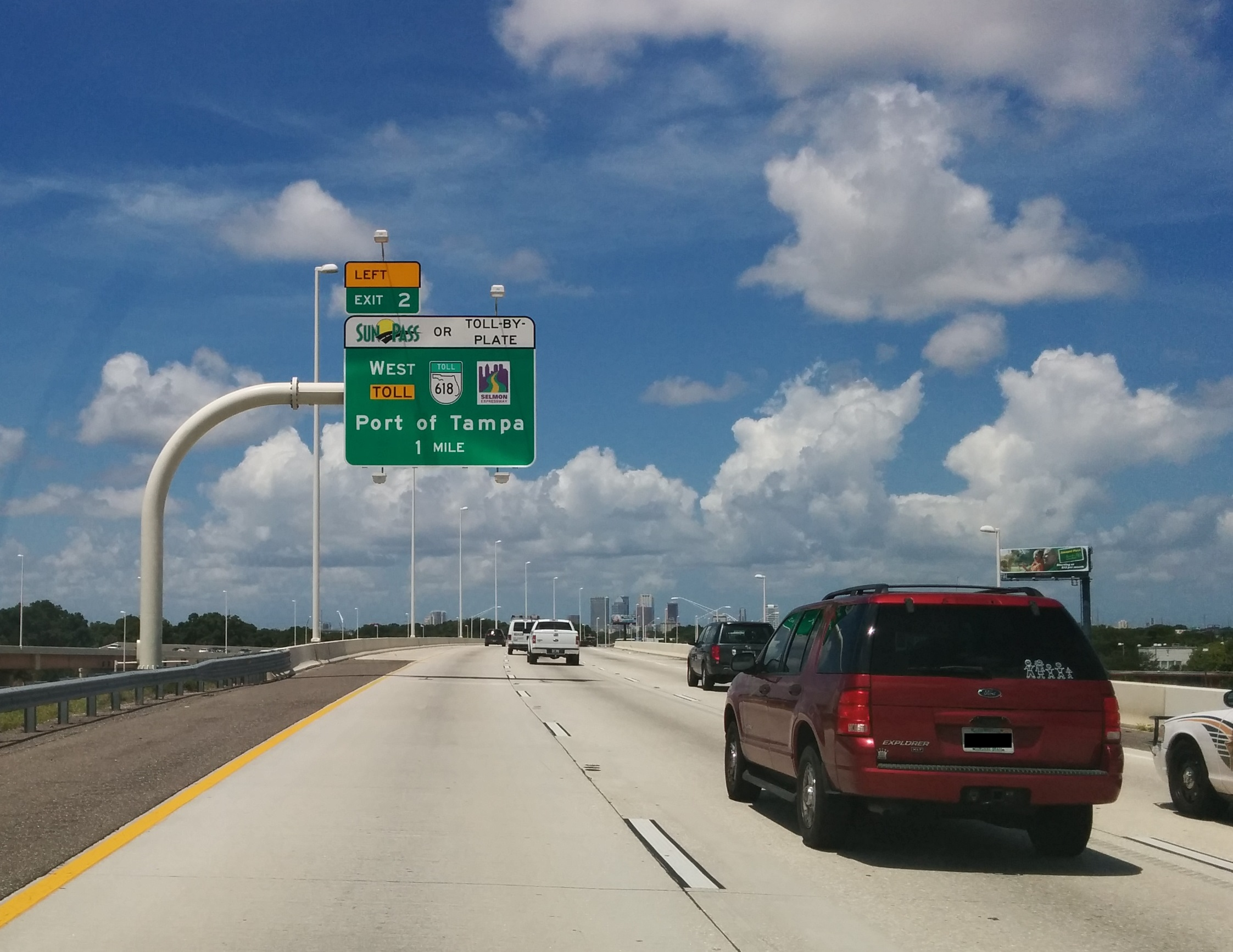 Westbound Interstate 4 just before bridge over US41, approaching Selmon Crosstown Connector.